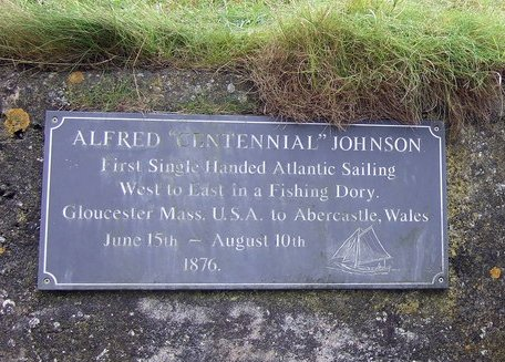 Alfred Johnson landed here The first person to make the single-handed Atlantic crossing in 1876, Alfred Johnson, a Danish-born fisherman from Gloucester Massachusetts, landed here after 66 days at sea in a dory named 'Centennial' in celebration of the first centennial of the United States. This plaque was unveiled by Alfred's grandson and there is also a book about the exploit, written by local author Rob Morris